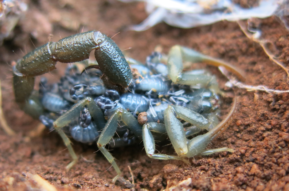 Uroplectes olivaceus with young, photographed in the Sand River Gorge, Medike Mountain Sanctuary, Soutpansberg, South Africa.